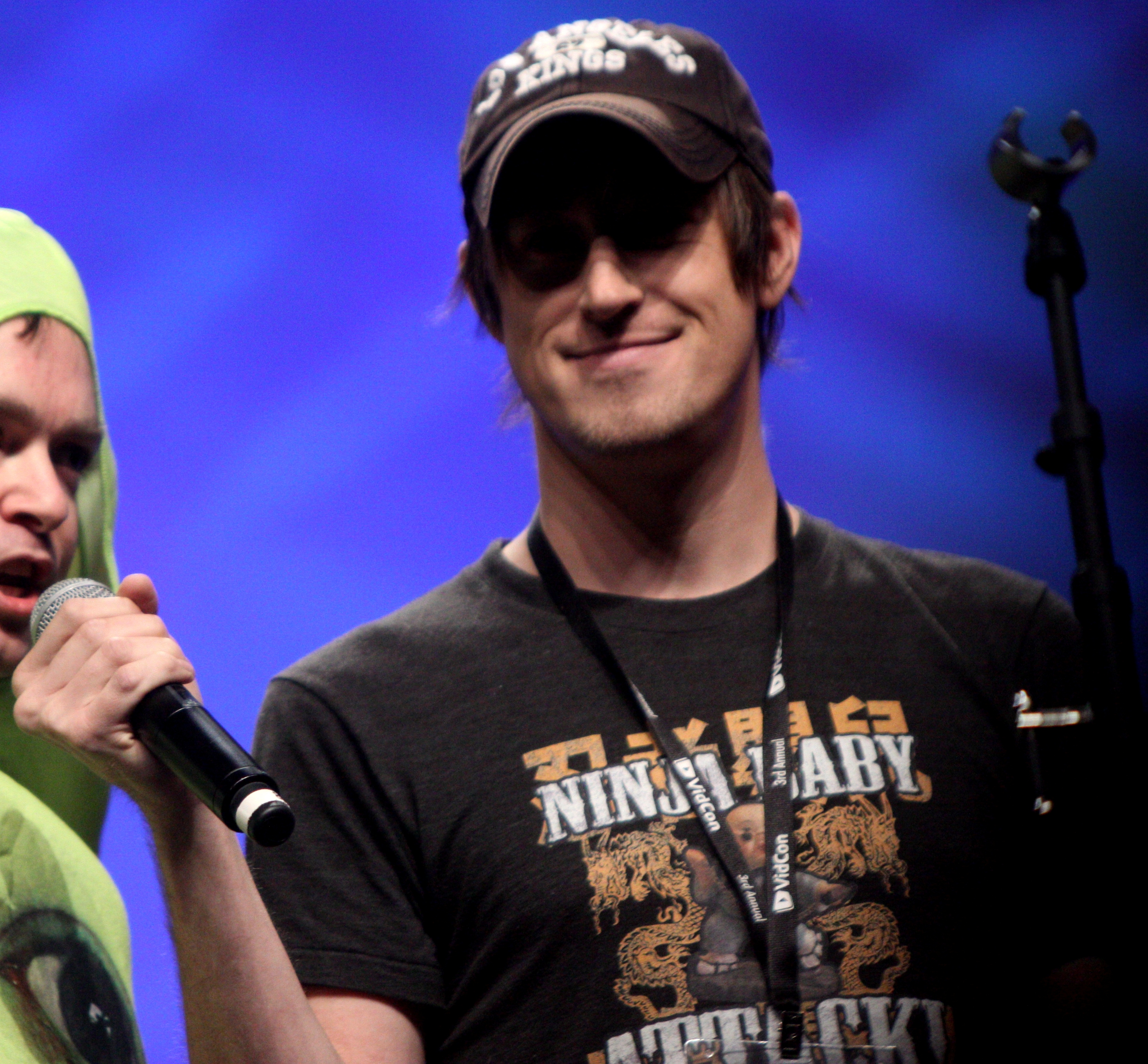 Dane Boedigheimer in VidCon on 2012